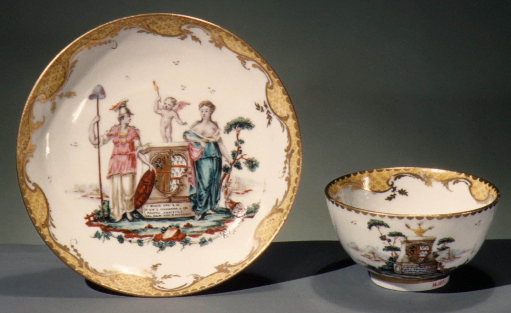 British, Bristol; Cup and saucer; Ceramics-Porcelain